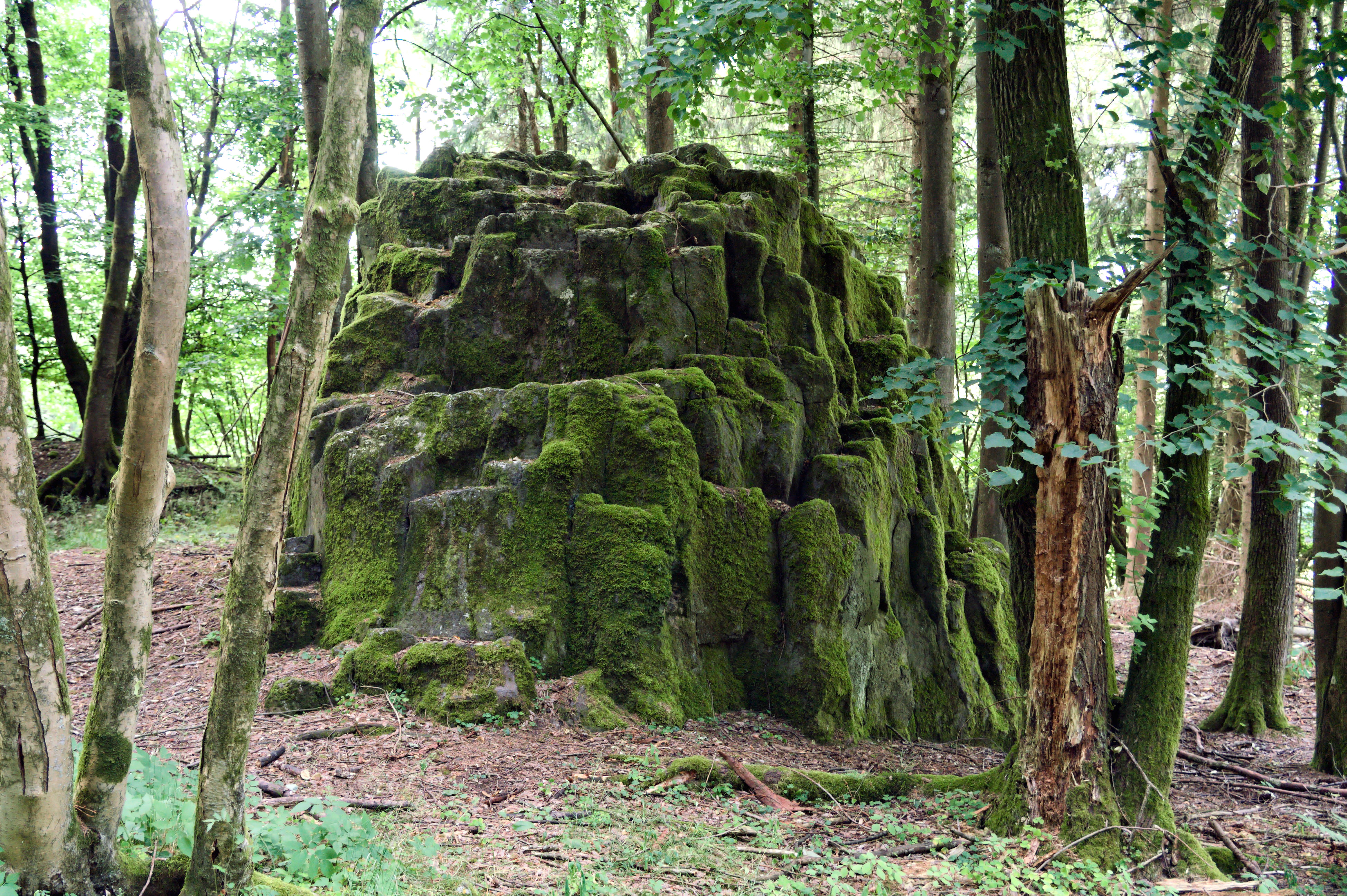 Natural monument ND-7138-418: Wilder Stein ("wild stone"), basalt columns, east of Hilgert village in Woldert, Westerwald, Germany